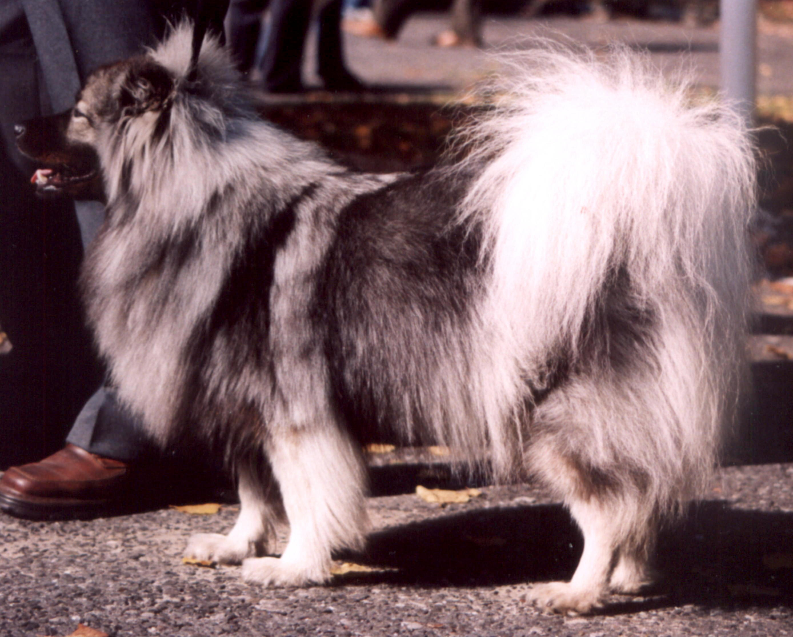 author: Pleple2000